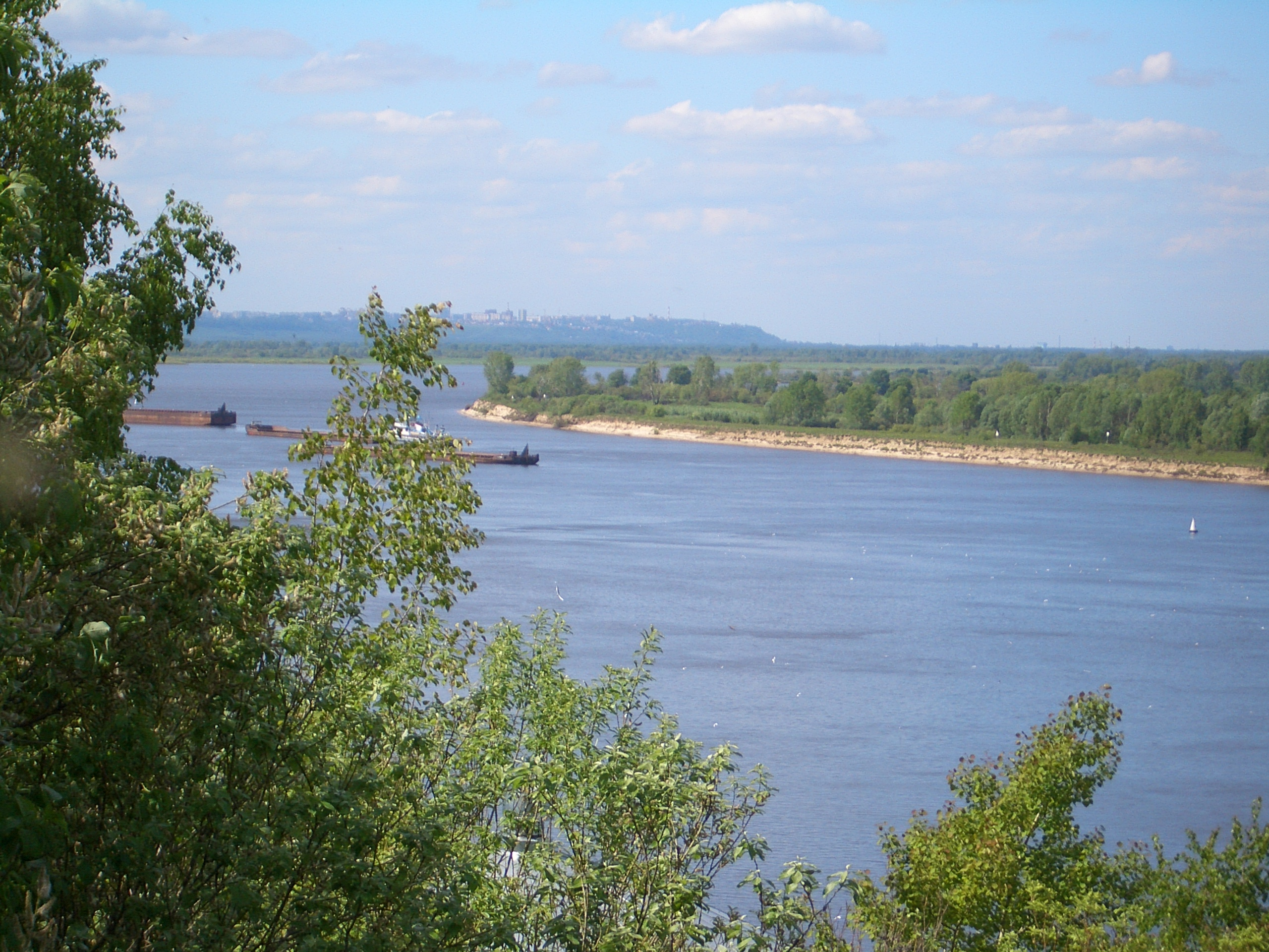 The Volga at Kstovo, about 20 km downstream from Nizhny Novgorod. One can see the Nizhny Novgorod skyline on the horizon.